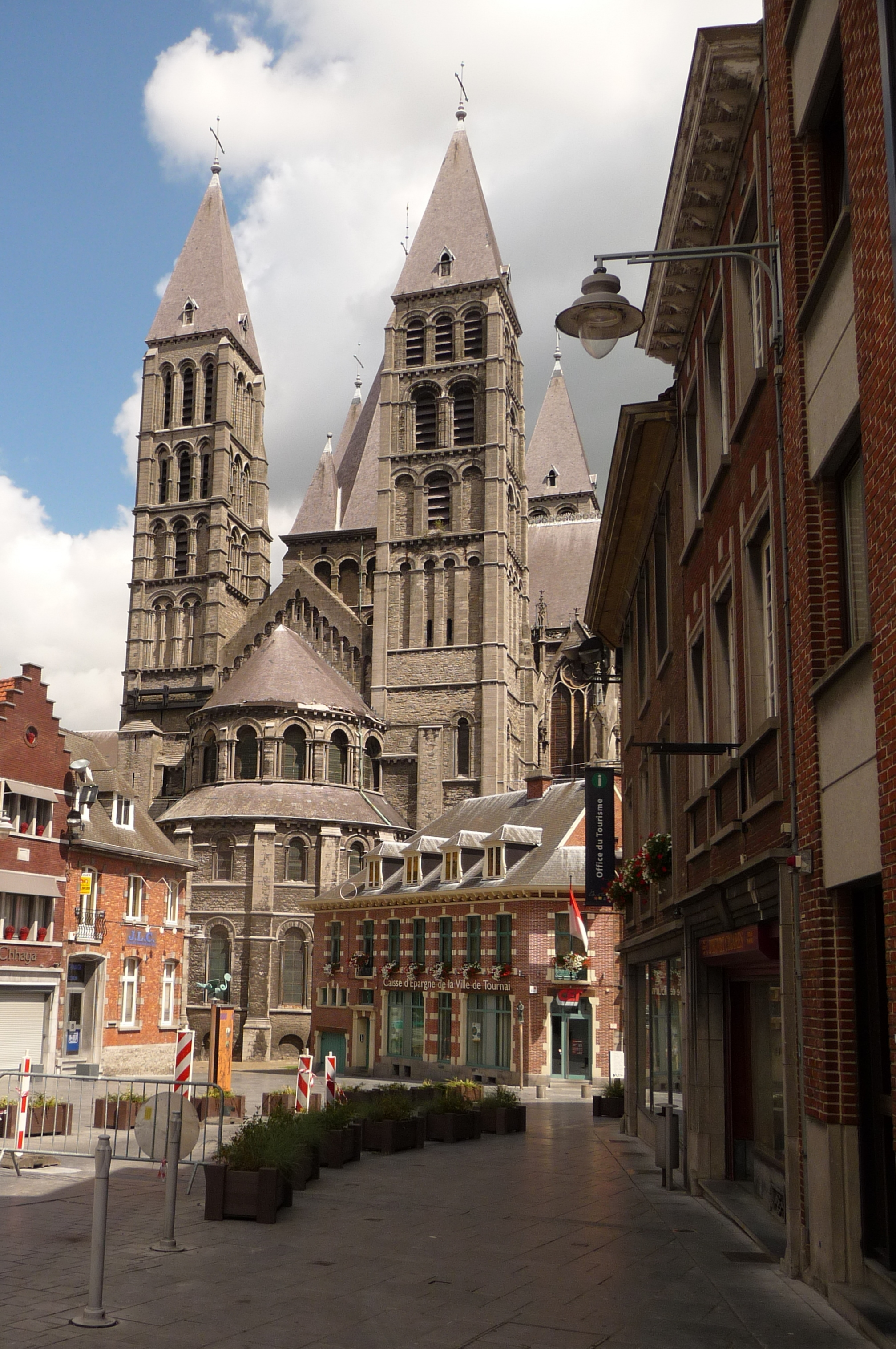 Cathedral in Tournai, 12th century